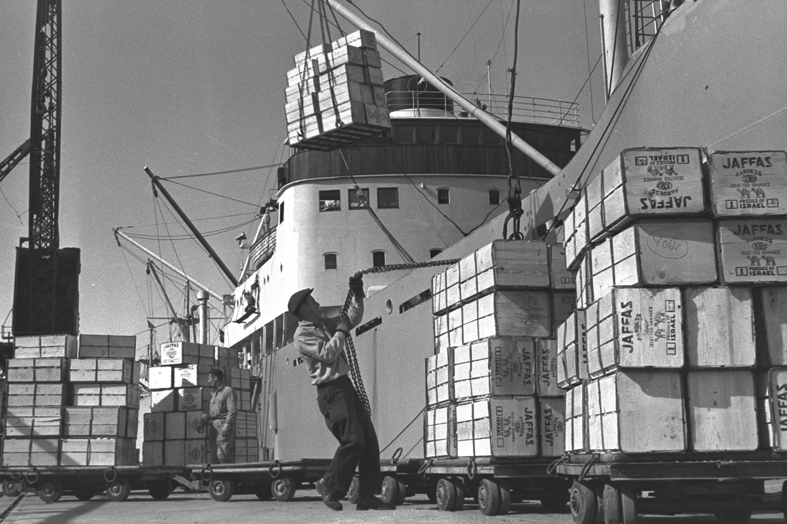 Original Description: JAFFA ORANGES BEING LOADED ON A SCANDINAVIAN FREIGHTER.